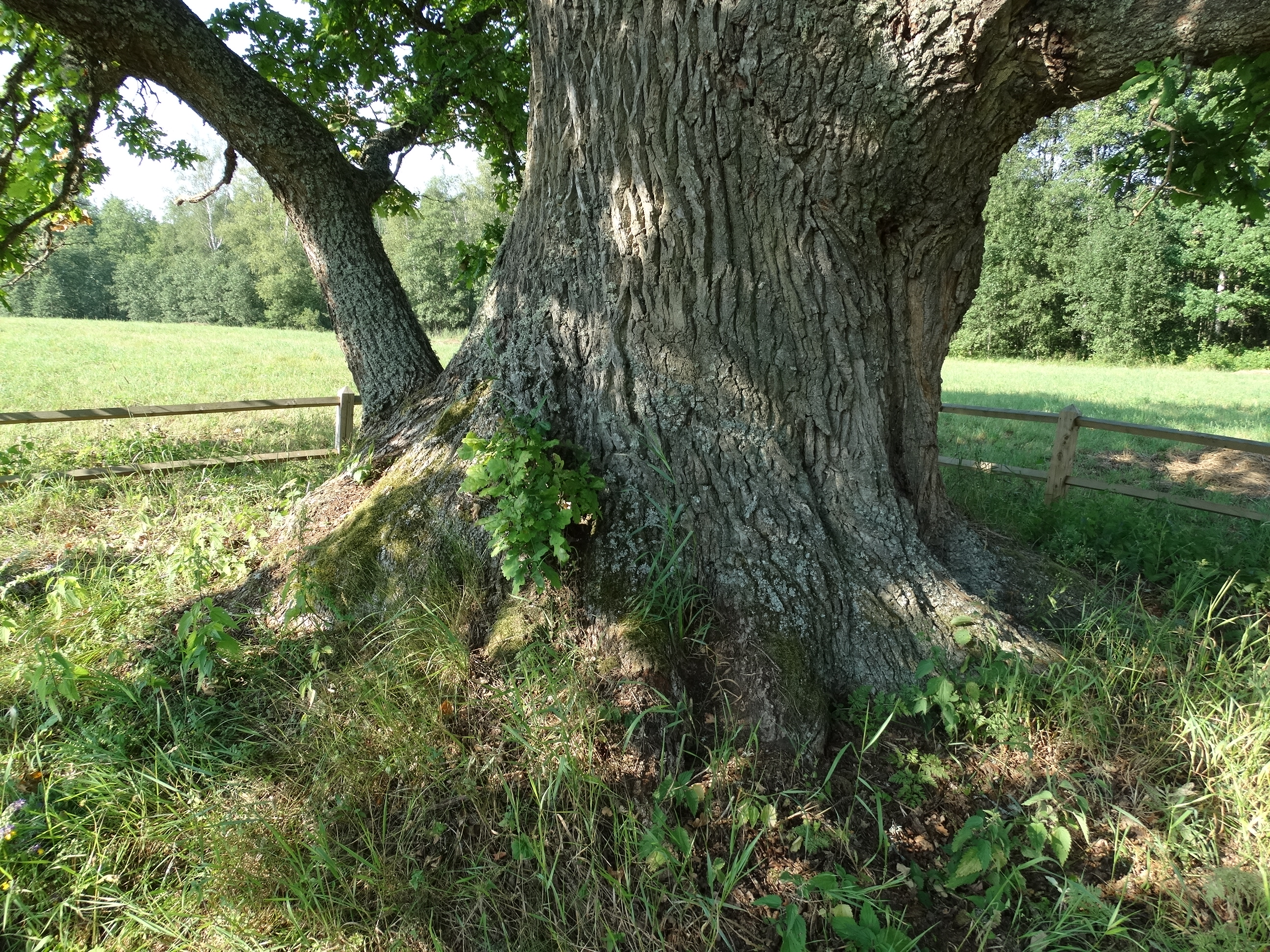 Varniškės II Oak, Utena district, Lithuania